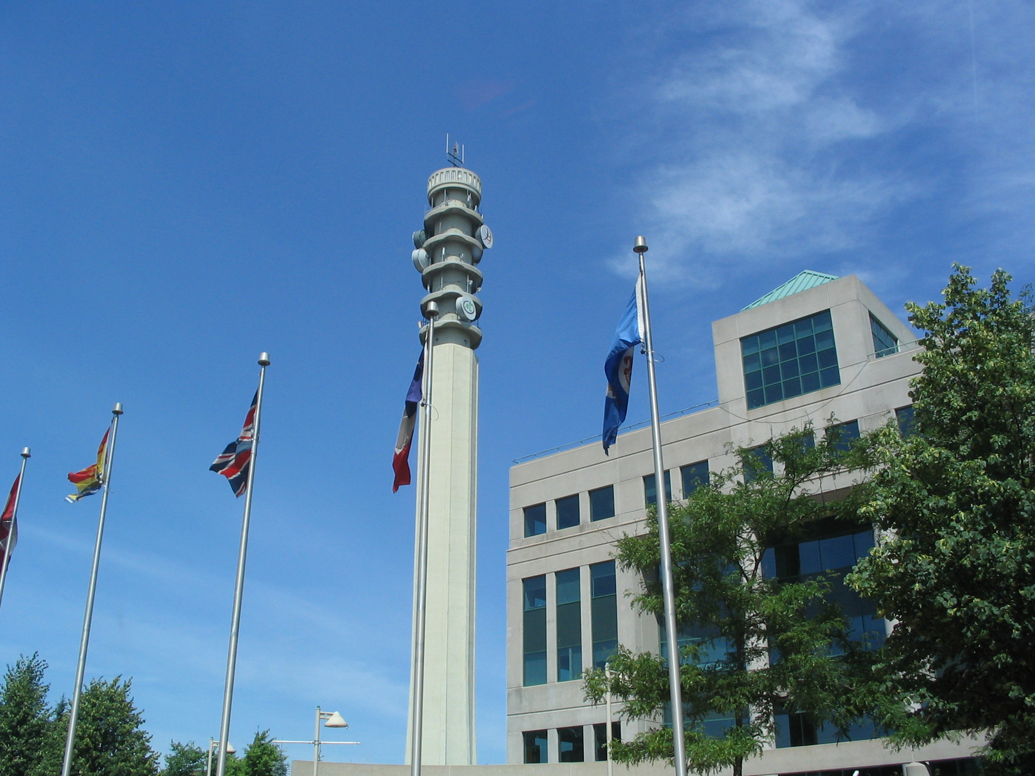 Alliant Tower and city hall, Moncton, New Brunswick.